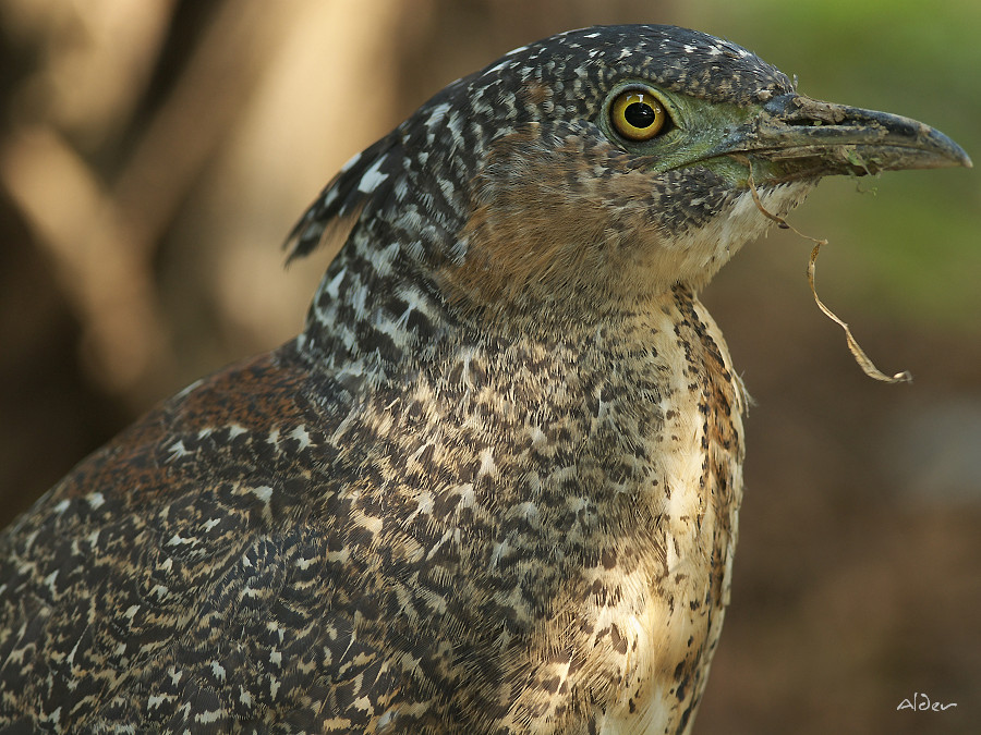 Subadult, taken at C.K.S. Memorial Hall, Taipei.